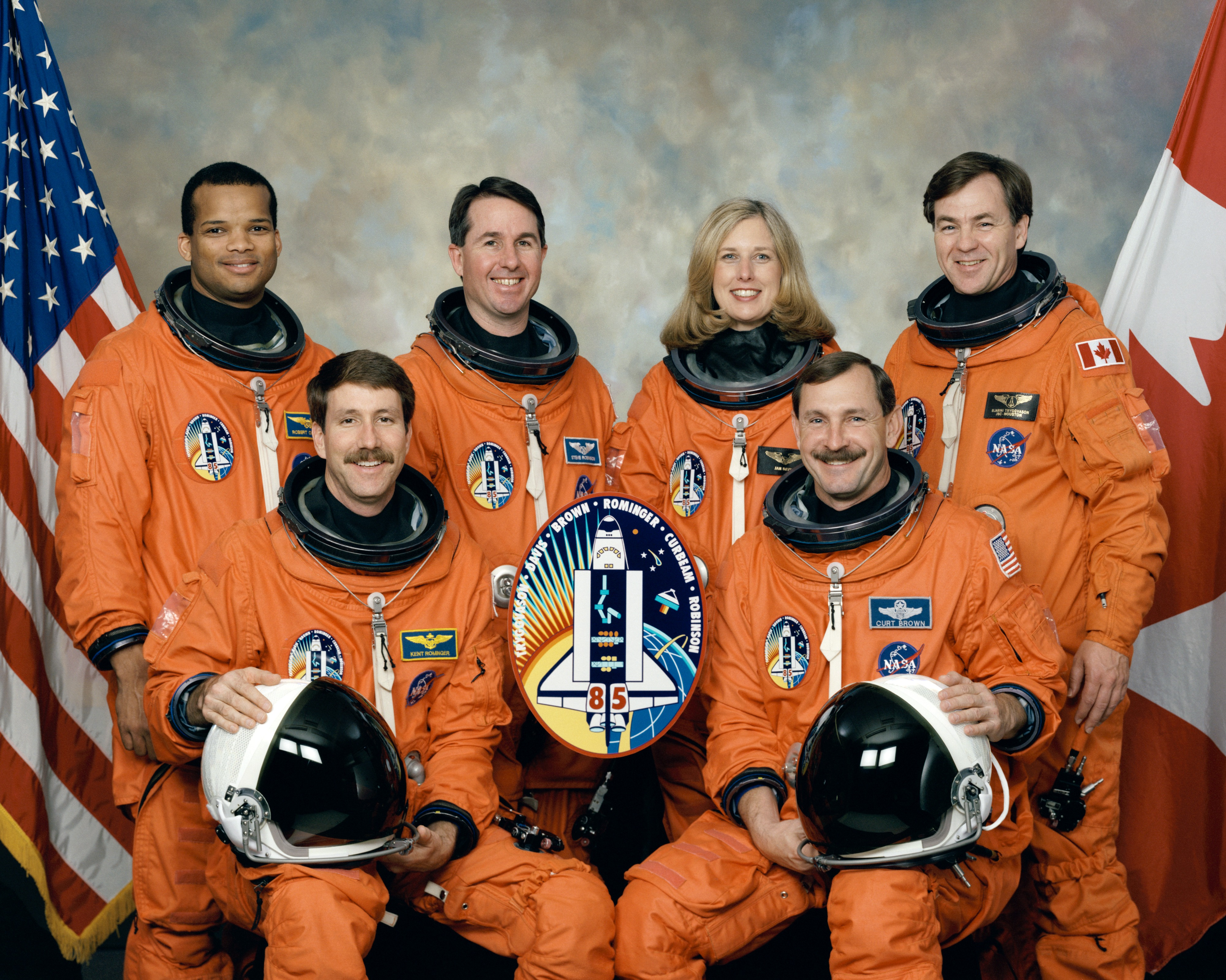 Five NASA astronauts and a Canadian payload specialist pause from their training schedule to pose for the traditional crew portrait for their mission, STS-85. In front are astronauts Curtis L. Brown, Jr. (right), mission commander, and Kent V. Rominger, pilot. On the back row, from the left, are astronauts Robert L. Curbeam, Jr., Stephen K. Robinson, and N. Jan Davis, all mission specialists, along with the Canadian Space Agency's (CSA) payload specialist, Bjarni Tryggvason. The five launched into space aboard the Space Shuttle Discovery on August 7, 1997 at 10:41:00 a.m. (EDT). Major payloads included the satellite known as Cryogenic Infrared Spectrometers and Telescopes for the Atmosphere-Shuttle Pallet Satellite-2 CRISTA-SPAS-02. CRISTA; a Japanese Manipulator Flight Development (MFD); the Technology Applications and Science (TAS-01); and the International Extreme Ultraviolet Hitchhiker (IEH-02).